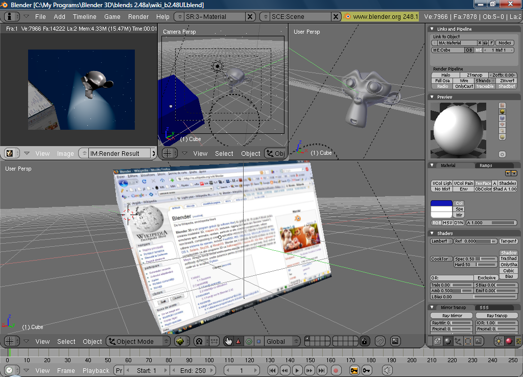 A screenhot of the free program Blender version 2,48